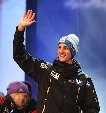 Gregor Schlierenzauer during Adam's Bull's Eye on March 26, 2011 in Zakopane.